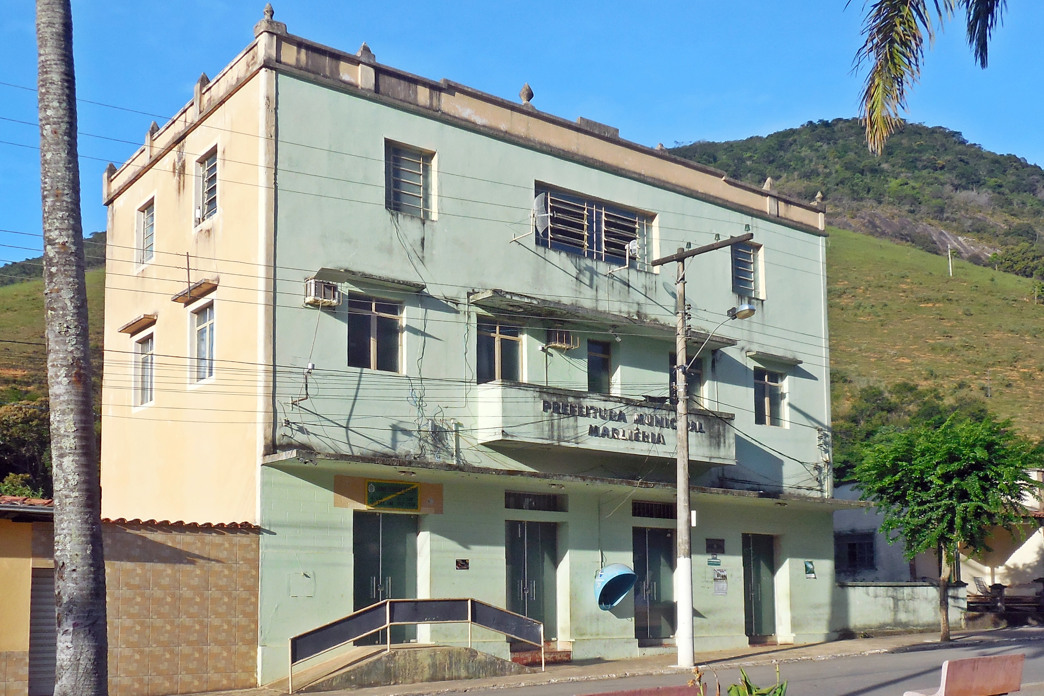 Town hall of Marliéria, Minas Gerais, Brazil.